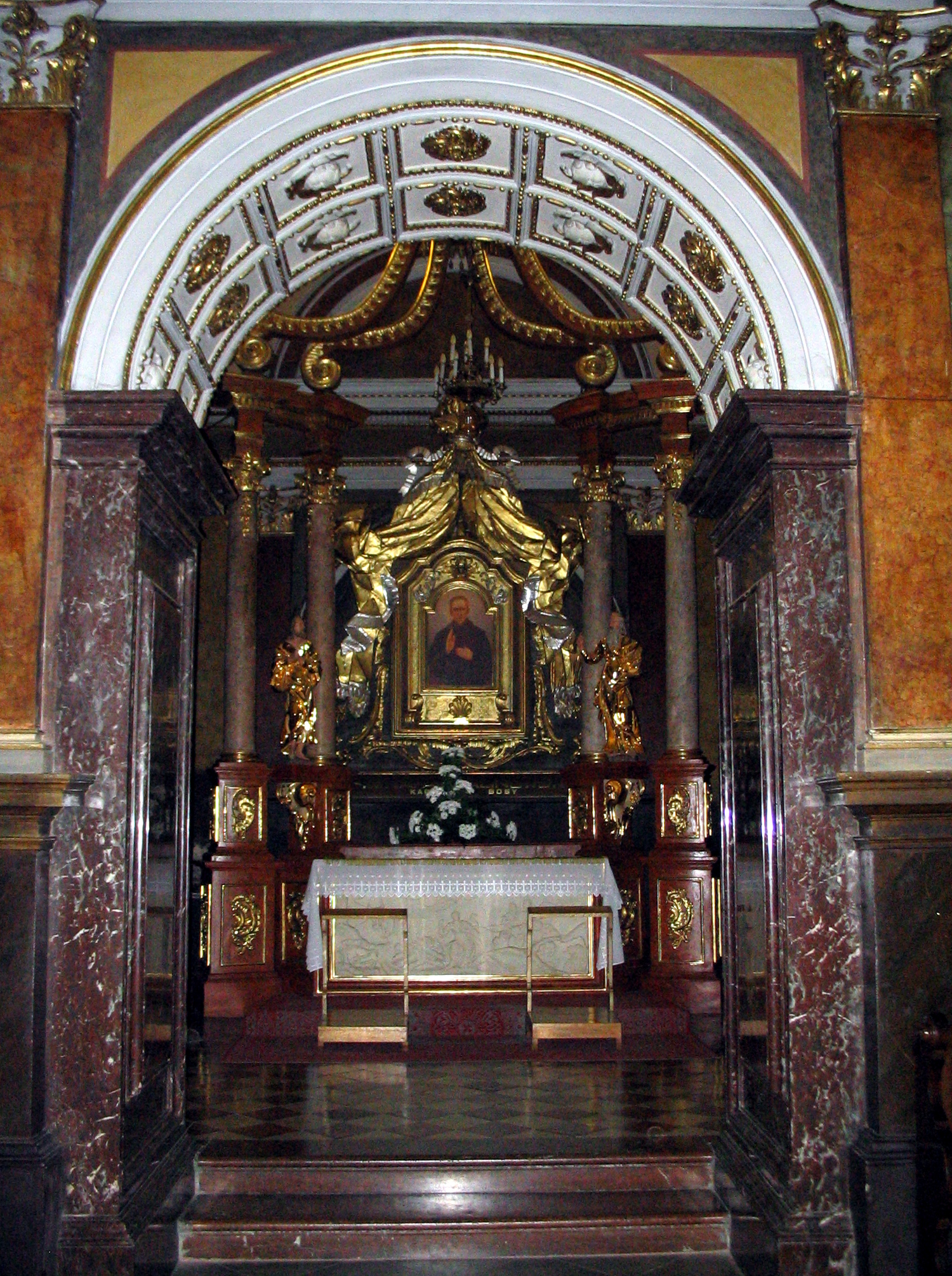 Carmelitan Church in Przemyśl, Poland